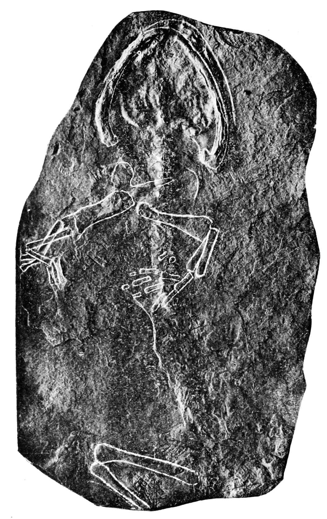 Pelion lyelli quadraped from carboniferous Ohio